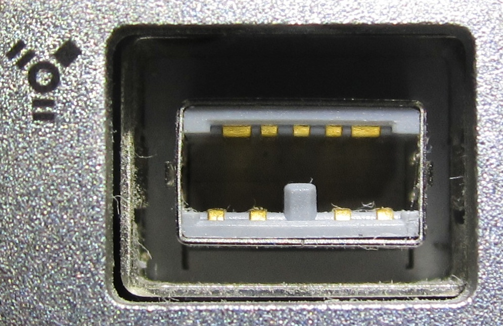 Firewire 800